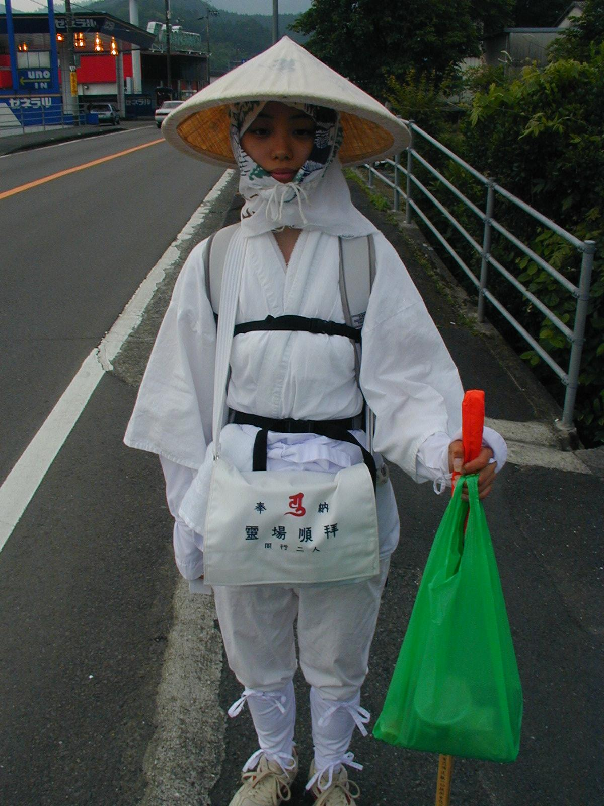 Pilgrim girl on the 88 Temple Pilgrimage, at Iwamotoji, Kubokawa -- by jpatokal, verbal model release obtained.